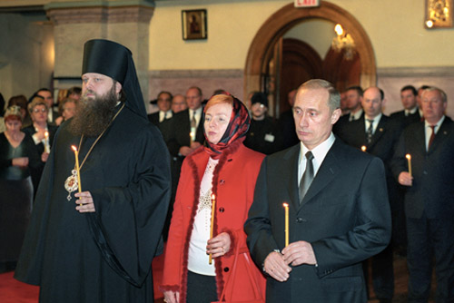 NEW YORK CITY. President Vladimir Putin and his wife, Lyudmila, attending a commemoration service for the victims of the terrorist attack of September 11 at St Nicholas\' Cathedral. His Eminence Mercury, Bishop of Zaraisk, the Administrator of the Patriarchal Parishes of the Russian Orthodox Church in the US, to the left.